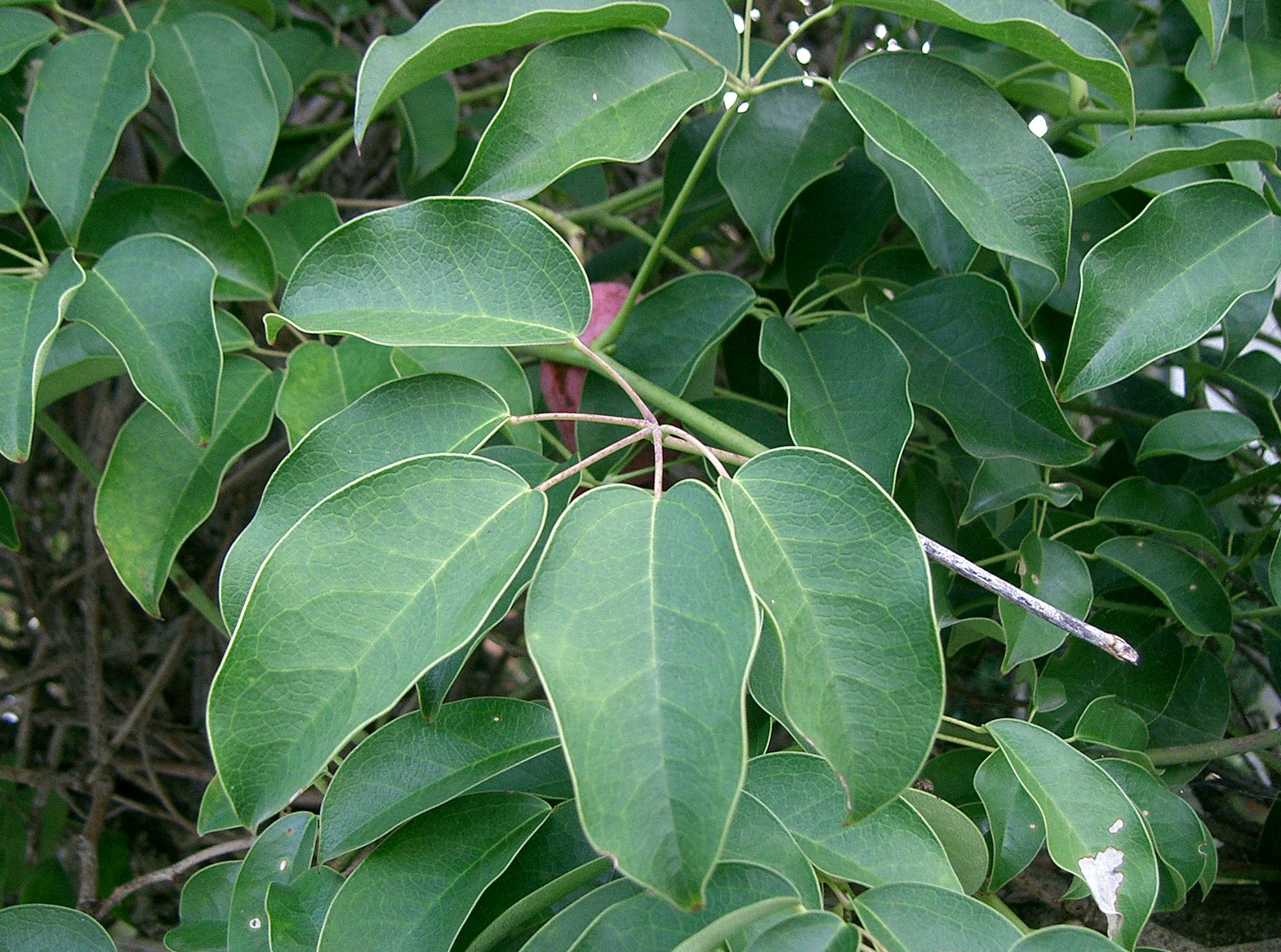 Stauntonia hexaphylla